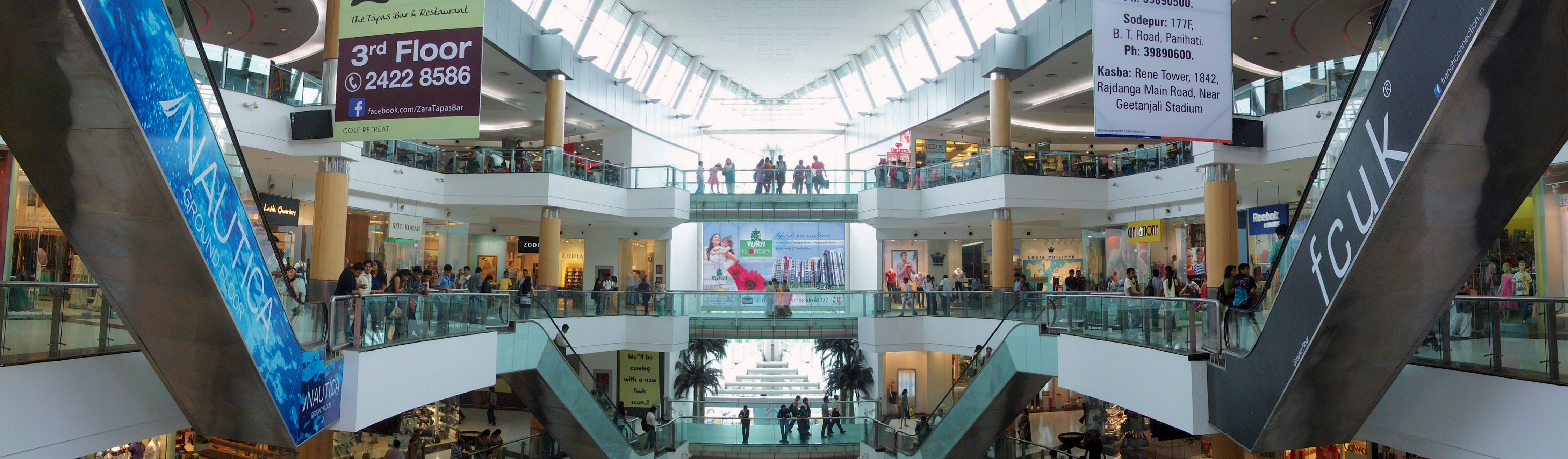 A panoramic interior view of the South City Mall, Kolkata.